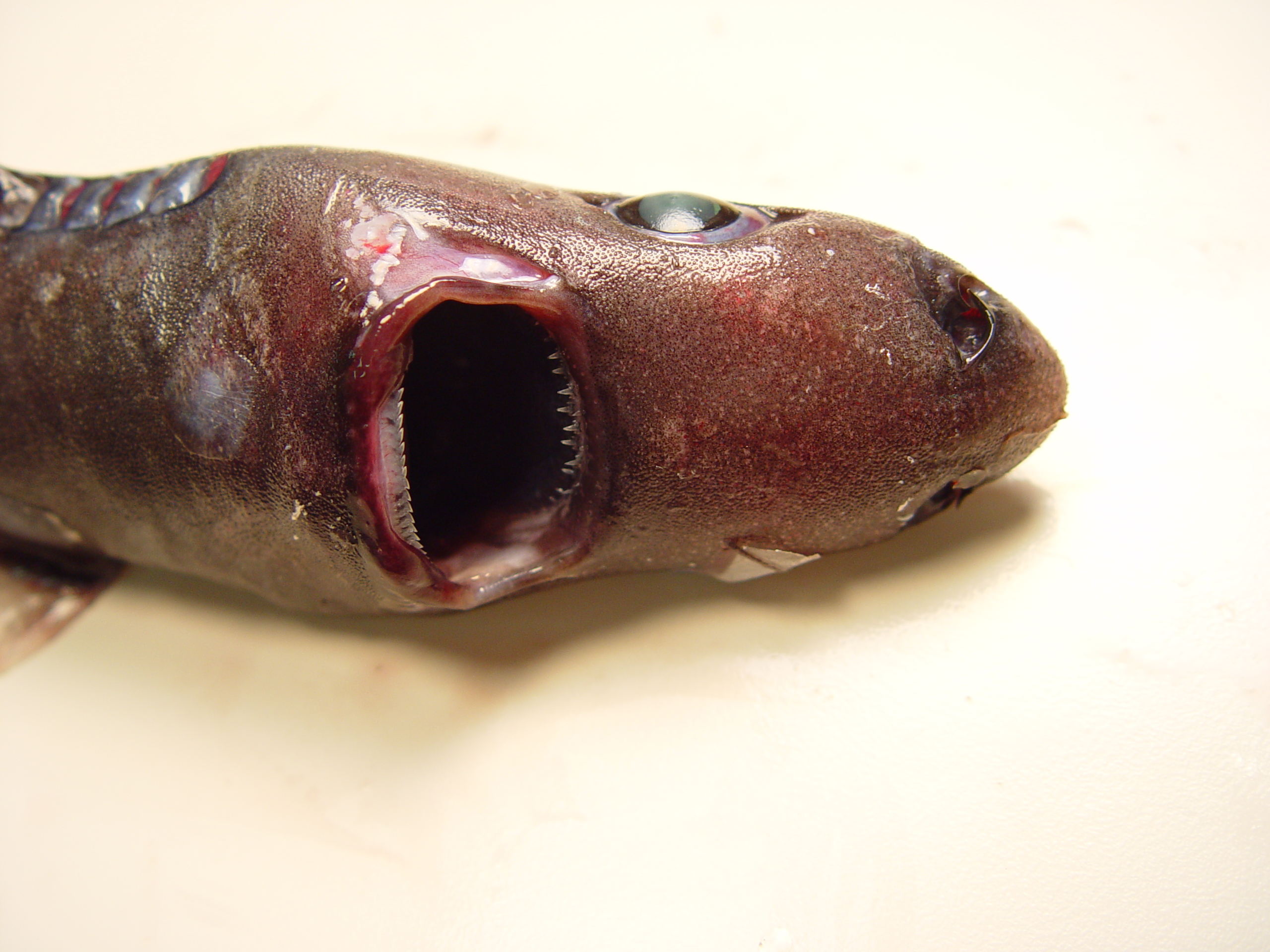 Smooth lanternshark (Etmopterus pusillus) from the Gulf of Mexico